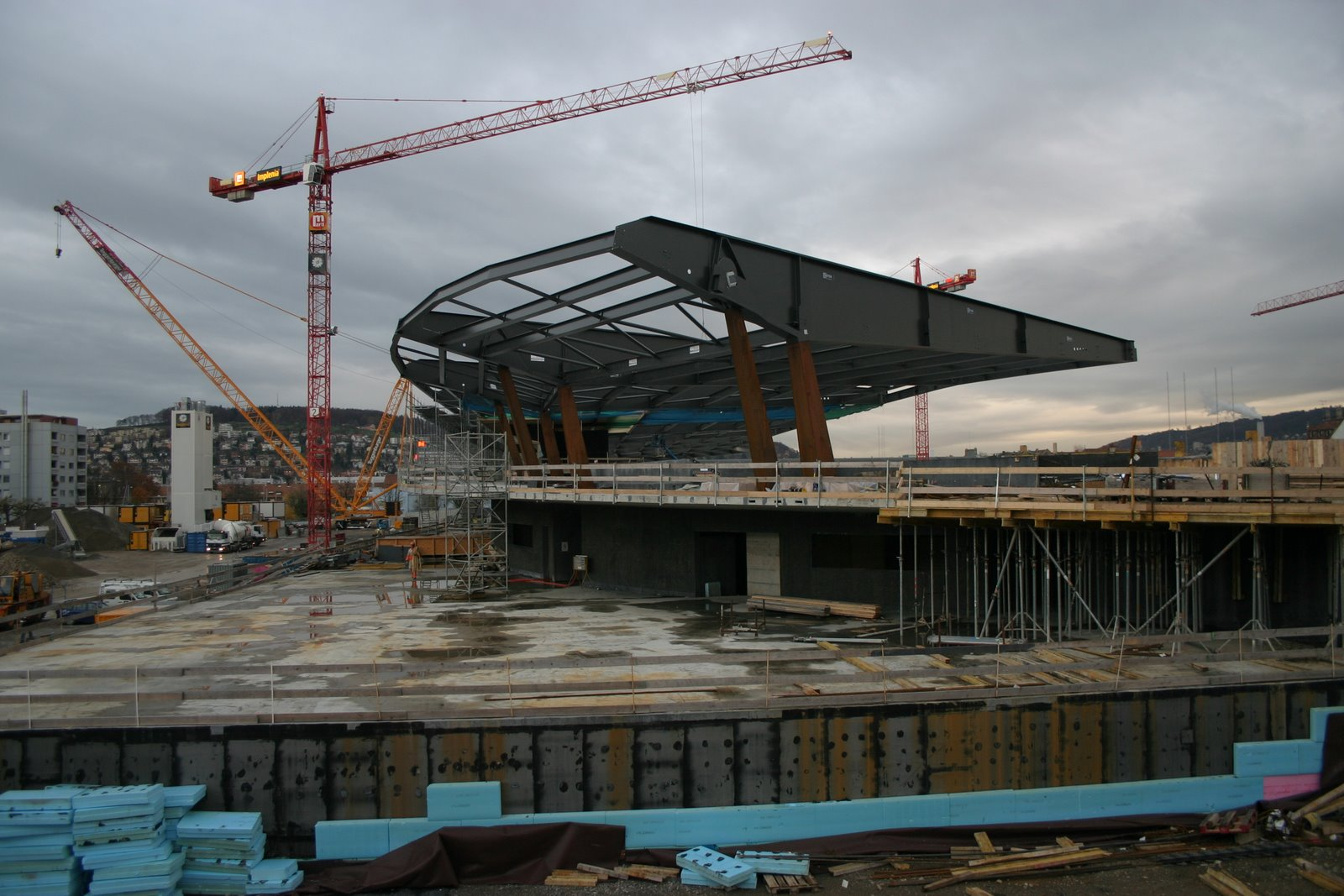 Construction of the new Letzigrund Stadium